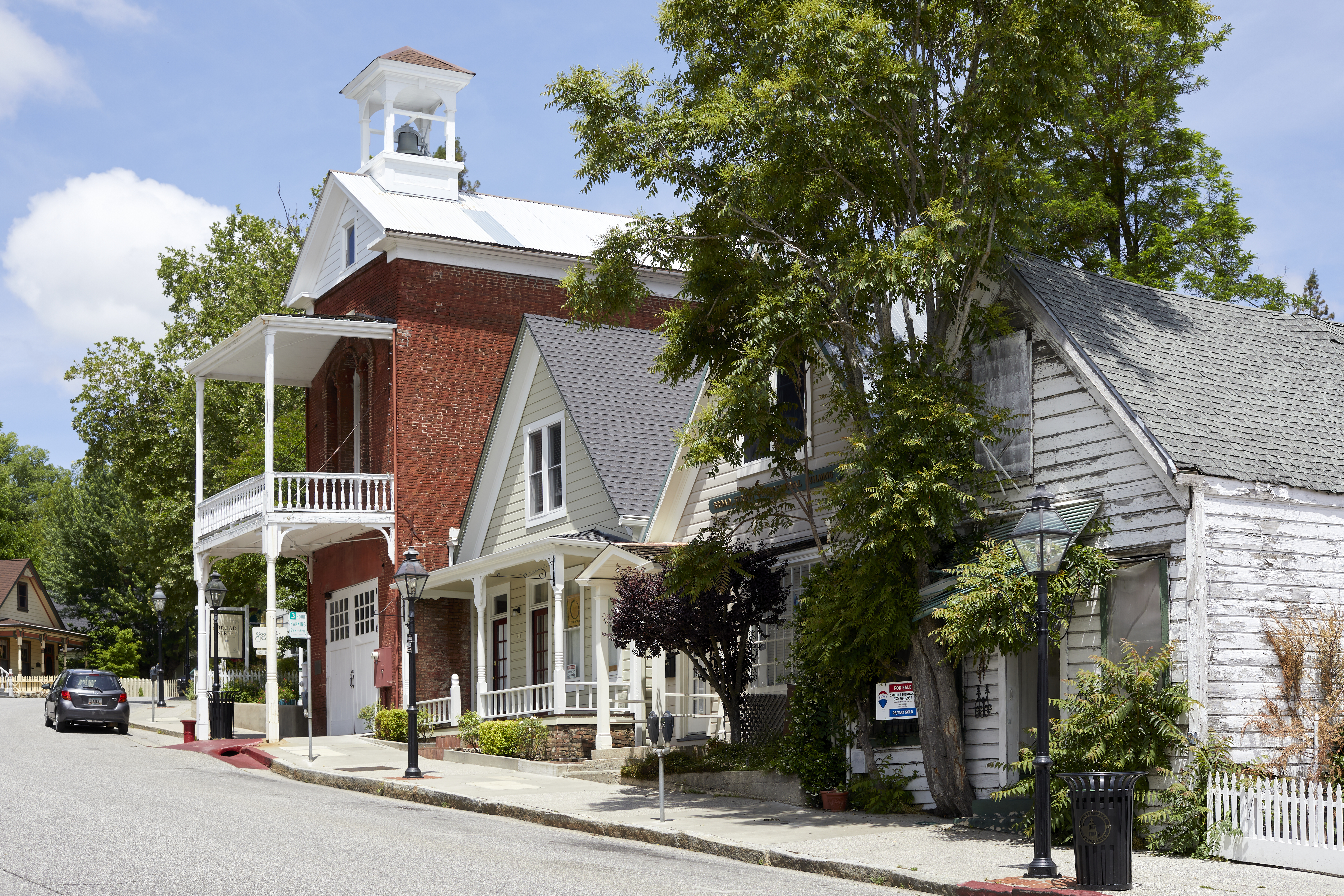 Setting of Nevada City Firehouse No. 2 on Broad Street in Nevada City, California, on May 31, 2020. Built in 1860–61, the firehouse was the first of its kind in the mining town then called “Nevada”. The image shows the historic firehouse as part of an ensemble of buildings on the upper part of Broad Street.